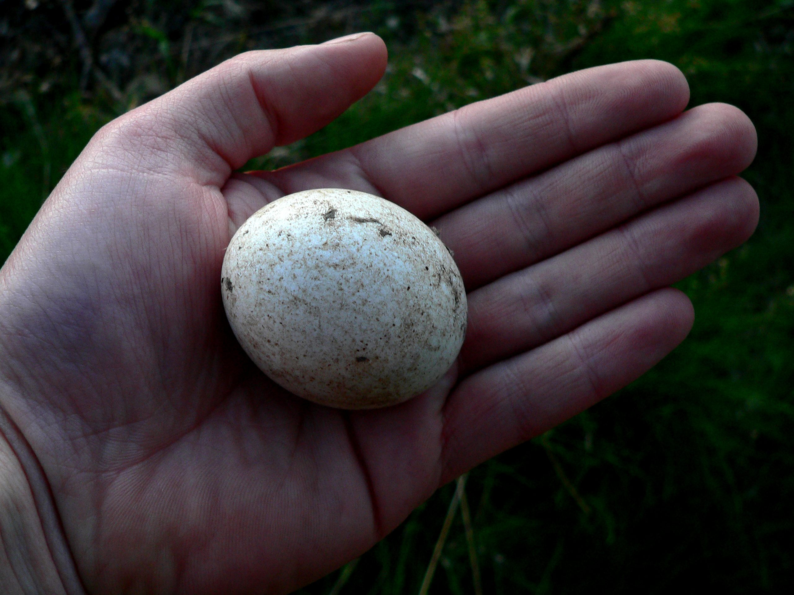 Ural owl (Strix uralensis), egg